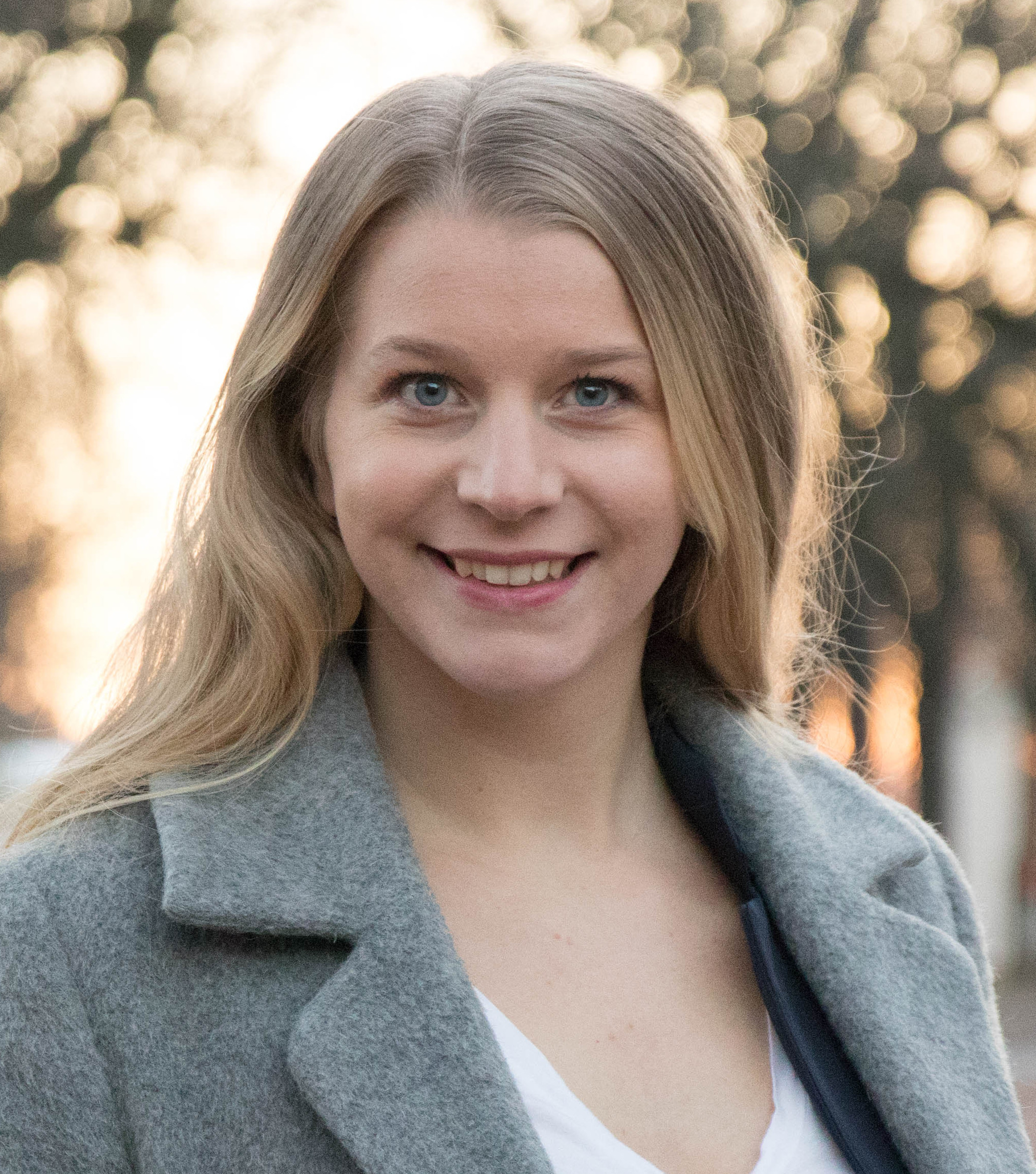 Ida Lindtveit Røse, Norwegian politician for Kristelig Folkeparti